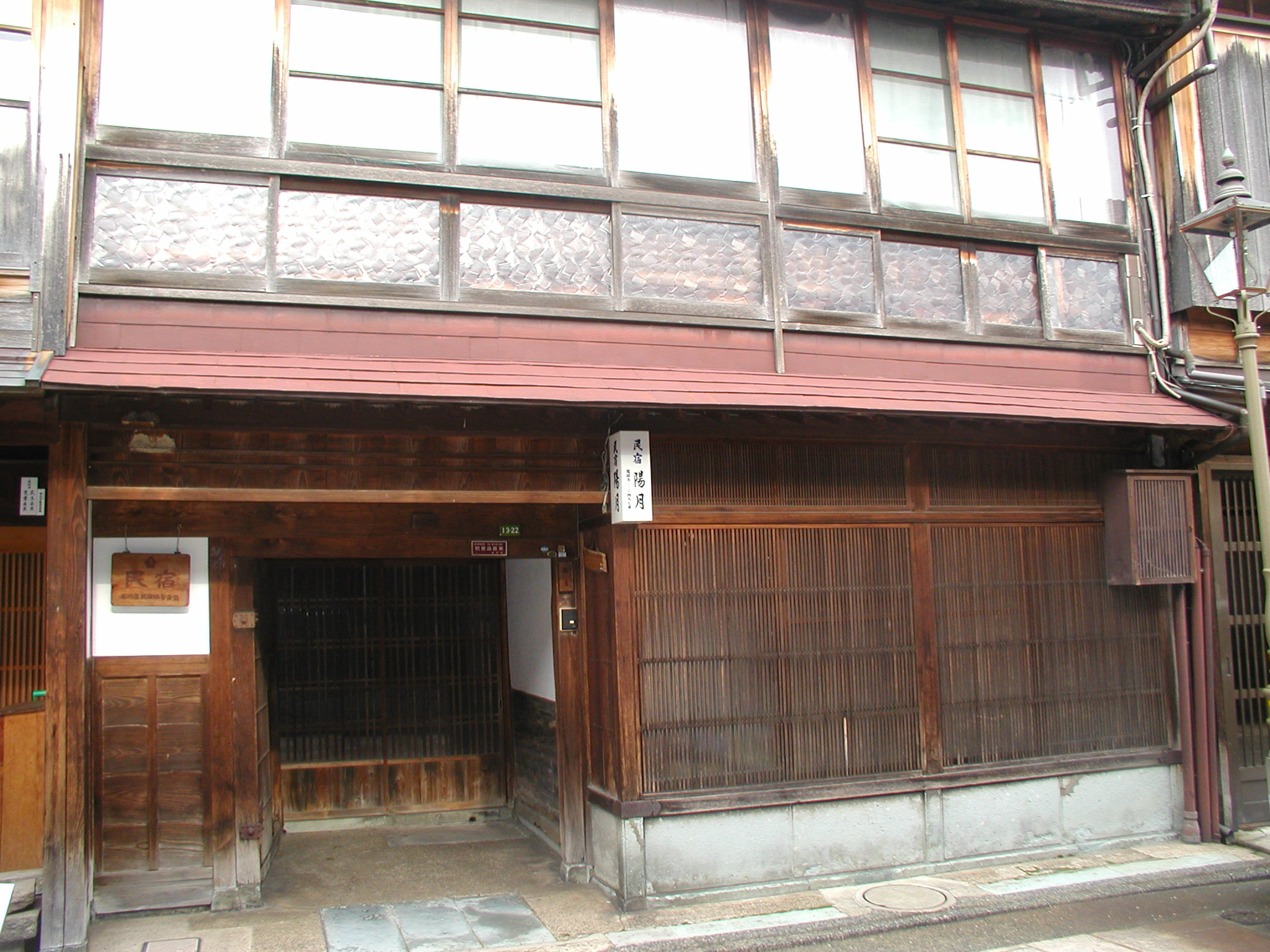 A minshuku (民宿) in the Higashi Chayagai, Kanazawa.